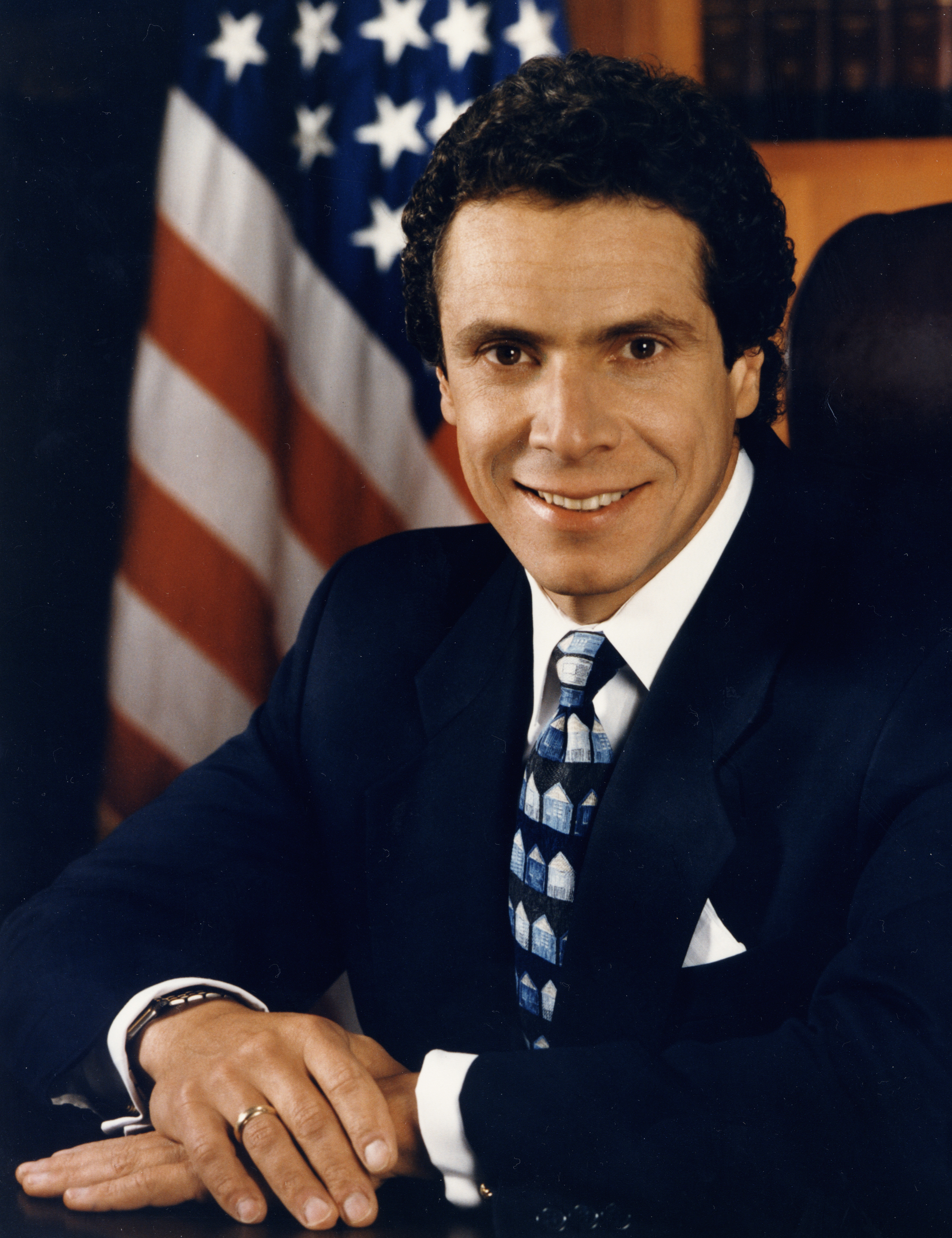 Official portrait of Andrew Cuomo while he was Secretary of the U.S. Department of Housing and Urban Development.